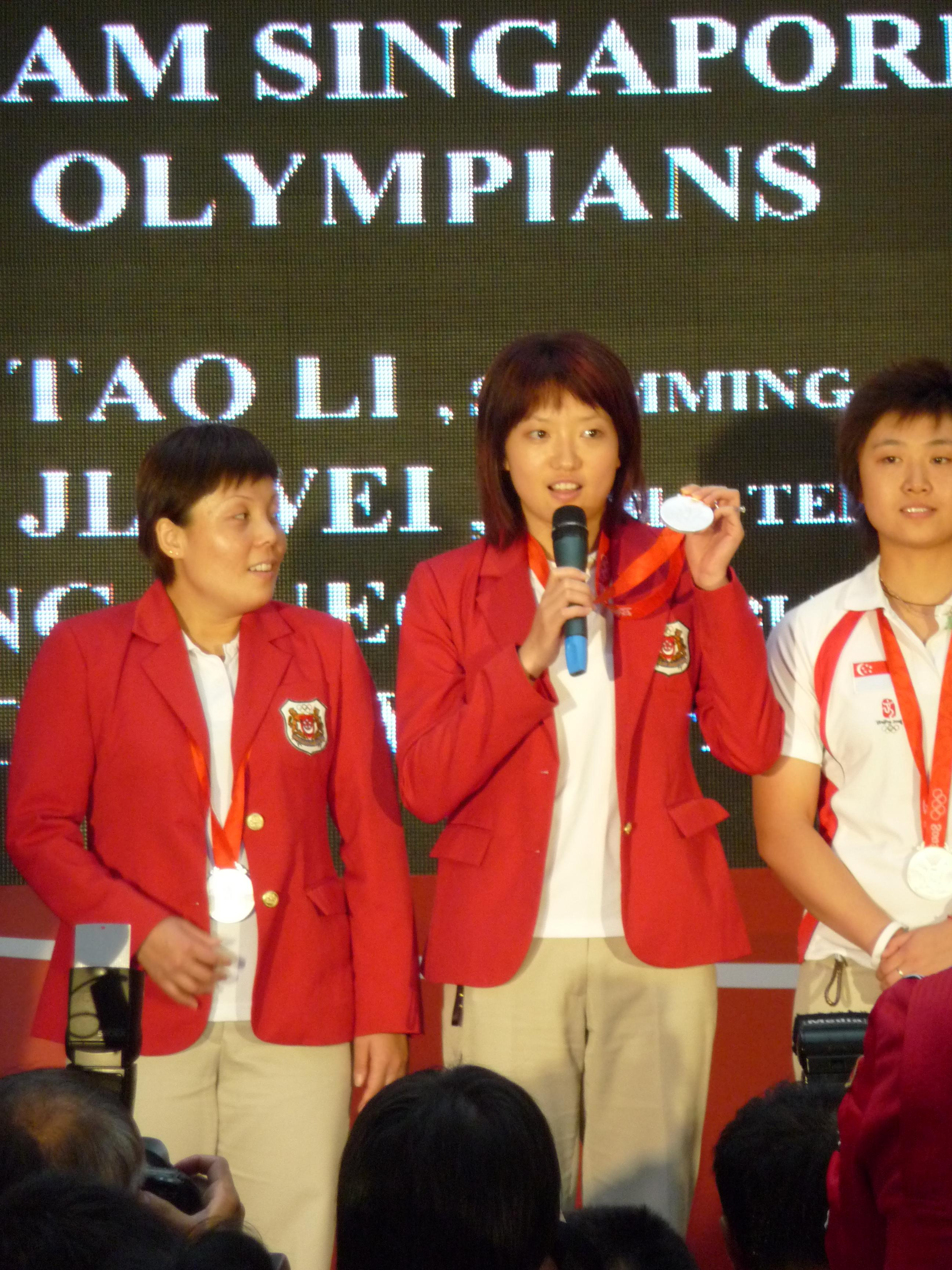 Singapore women's table tennis team member Li Jiawei speaking during a ceremony to welcome Team Singapore home from the 2008 Summer Olympics. On her right and left are Wang Yuegu and Feng Tianwei.